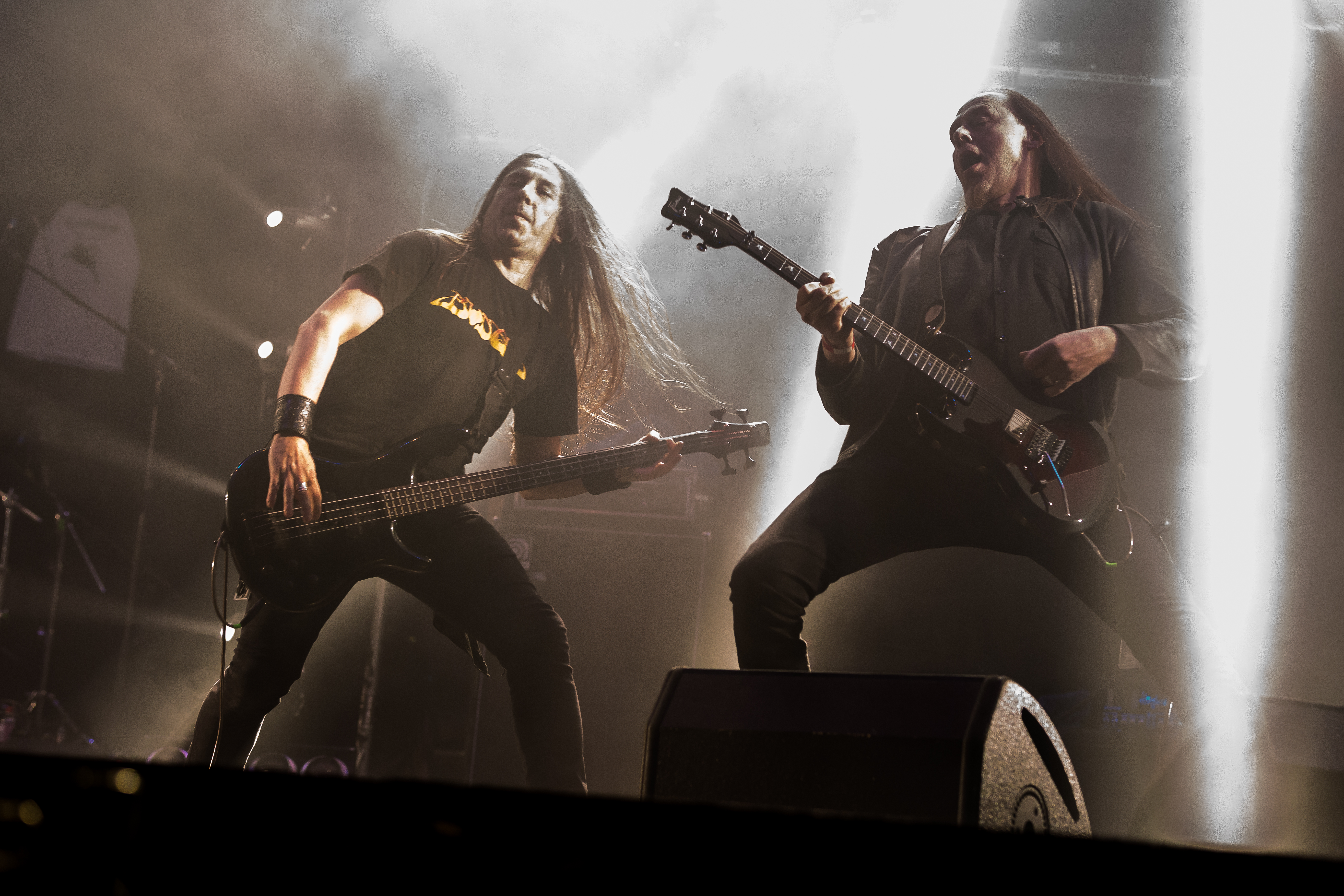 The Swedish epic doom band Candlemass at the Party.San Metal Open Air 2017 in Obermehler-Schlotheim/Germany.